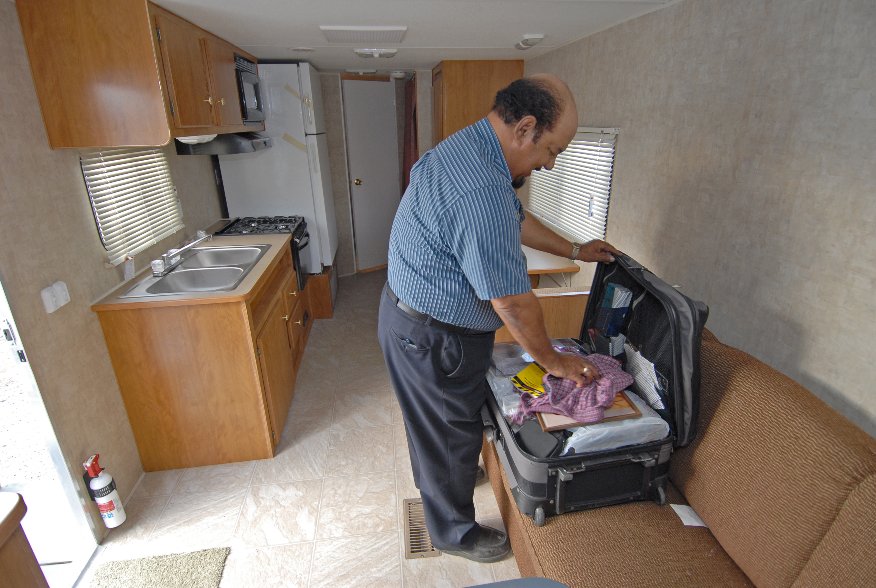 New Orleans, LA, 4-3-06 -- Southern University at New Orleans (SUNO) assistant Professor of Mathematics Herbert Jolly unpacks his bags in his new FEMA Trailer that FEMA is providing for SUNO Staff and faculty. Mr. Jolly's had 8.2' feet of water in his home and is waiting for new floodplain maps so he can rebuild and move back into his home. FEMA is delivering and installing Travel Trailers to help house homeless Hurricane Katrina disaster victim Educators and Students so Louisiana's Education system can become operational again. Marvin Nauman/FEMA photo